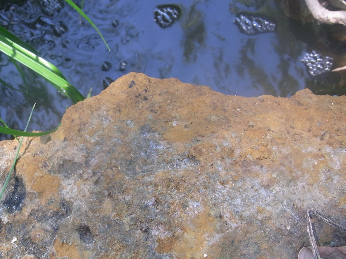 Sandstone outcropping beside Duck River NSW, Australia - likely to be Minchinbury Sandstone.